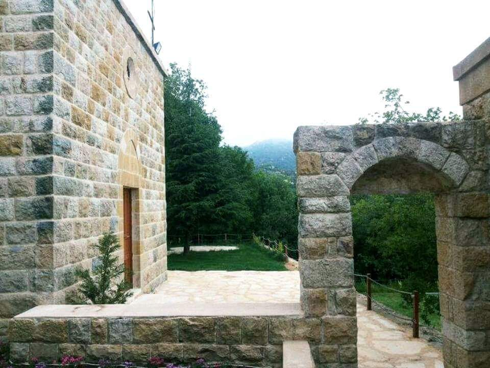 Entrance of the Monastery of Saint Anthony of Padua in Ayn Sja', Lebanon, one of the surviving endowments of the House of Al-Dahdah